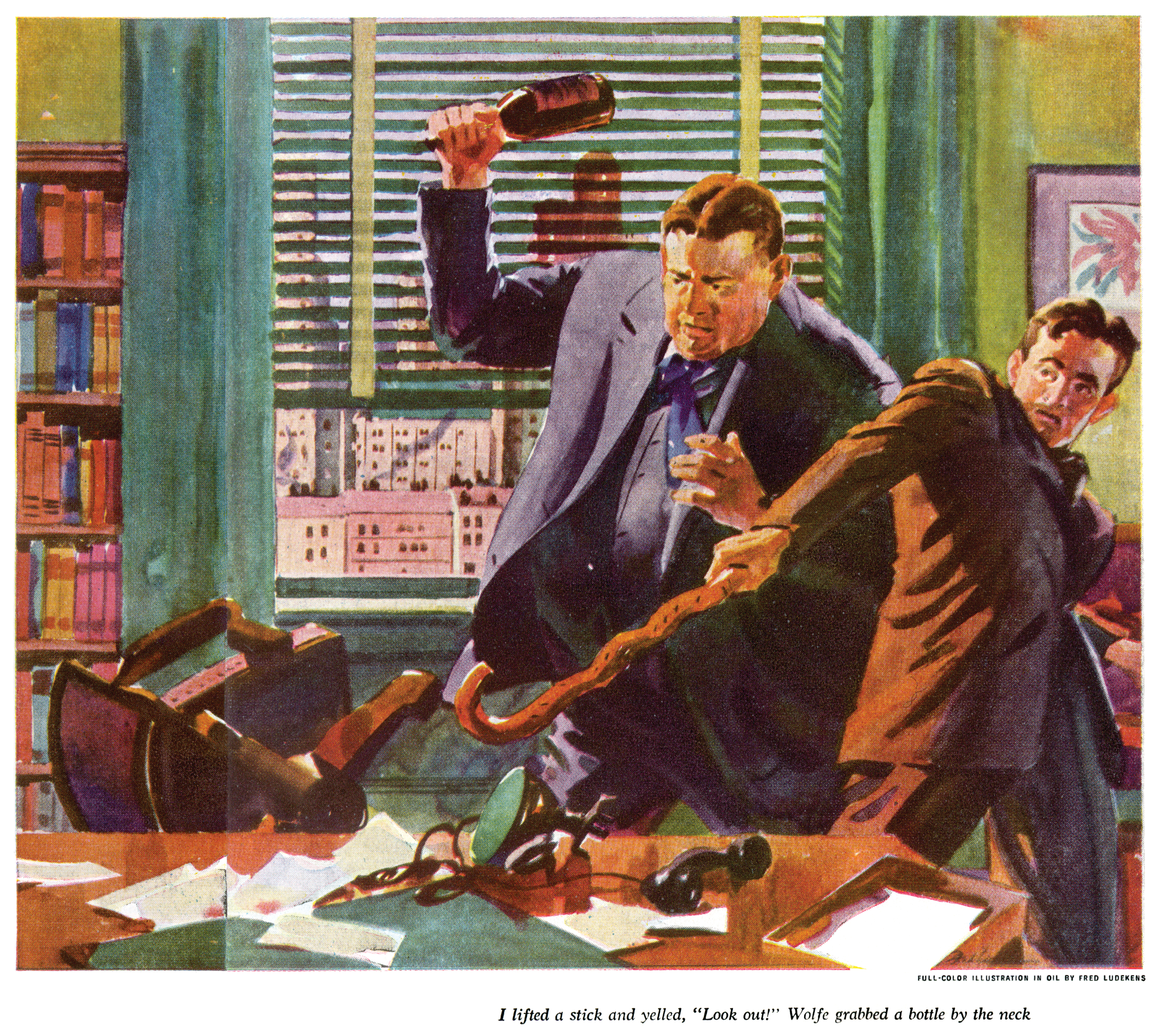 Lead illustration from the November 1934 printing of "Point of Death" (1934) by Rex Stout, an abridged version of the novel Fer-de-Lance